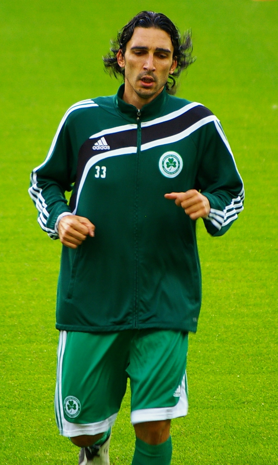 defender Omnia Nicosia